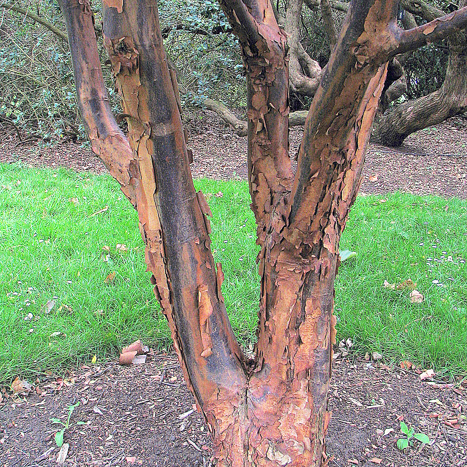 Acer griseum bark Kew